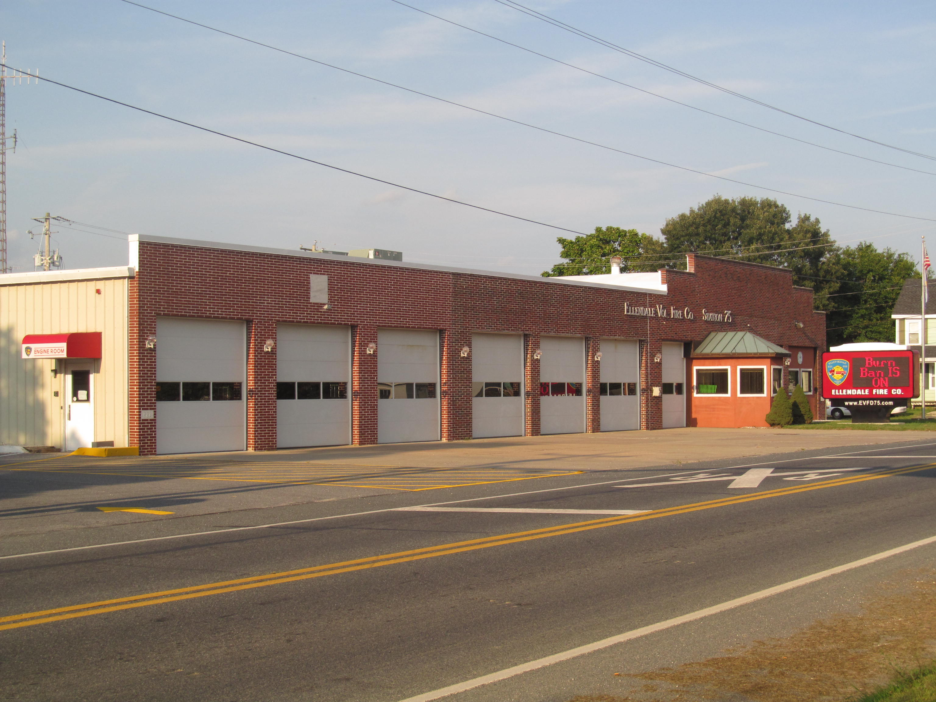 The Ellendale Fire Company Inc. that provides fire/rescue/EMS service to the town of Ellendale and surrounding communities.